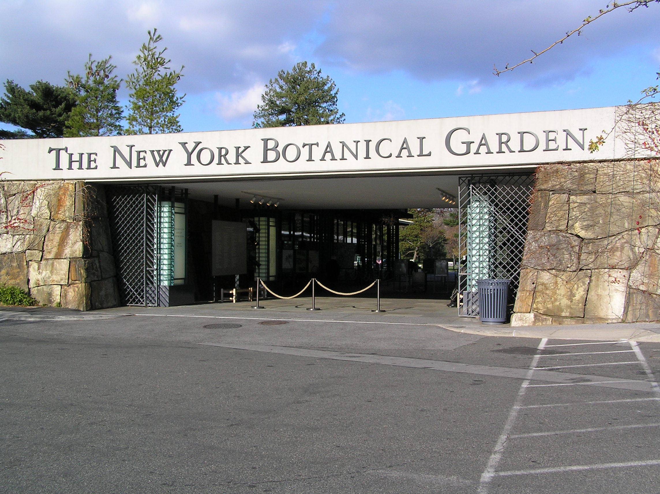 Entrance of the New York Botanic Garden, Bronx, New York City